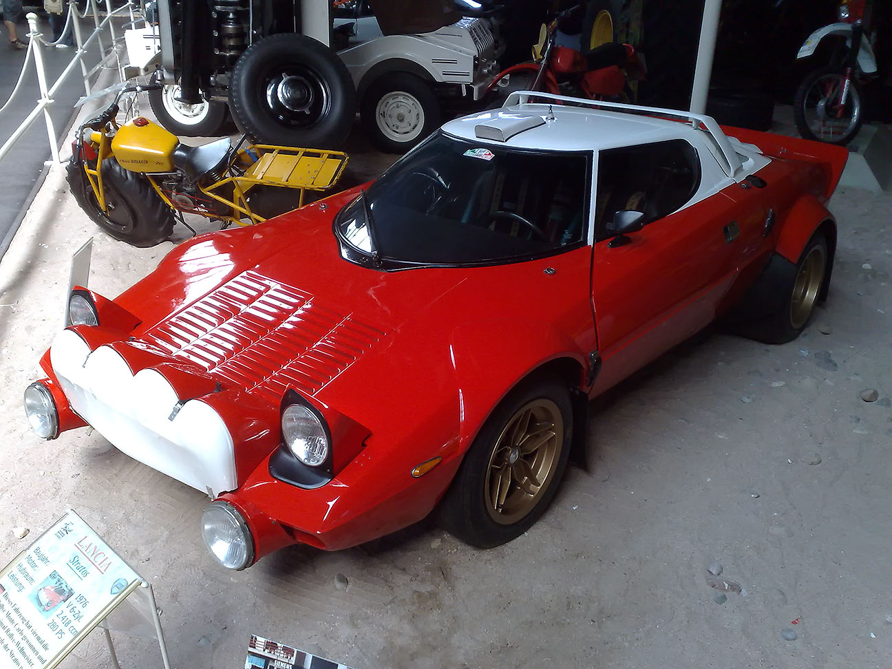 Lancia Stratos at Auto- und Technikmuseum Sinsheim